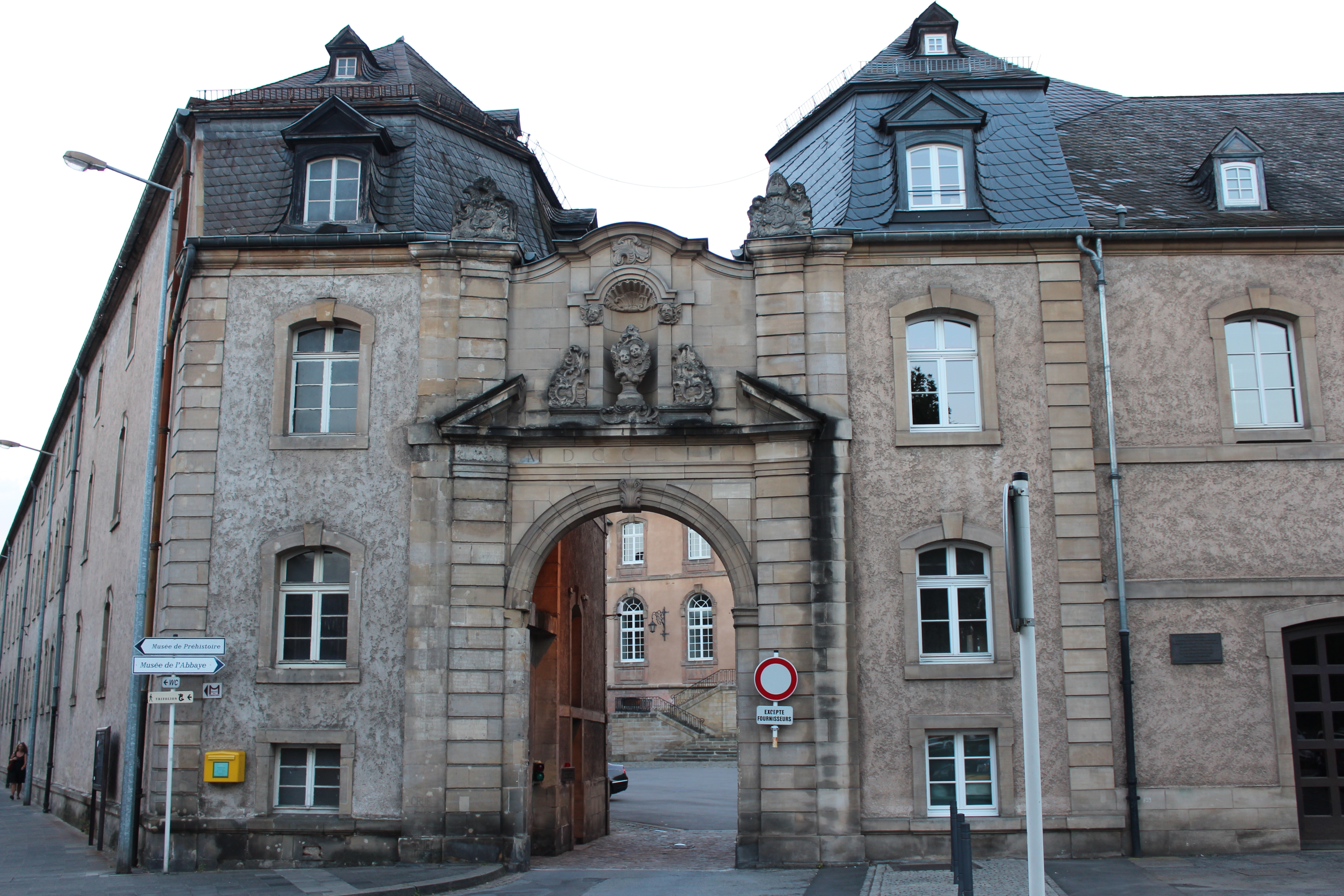 Entrance portal of former Echternach Abbey